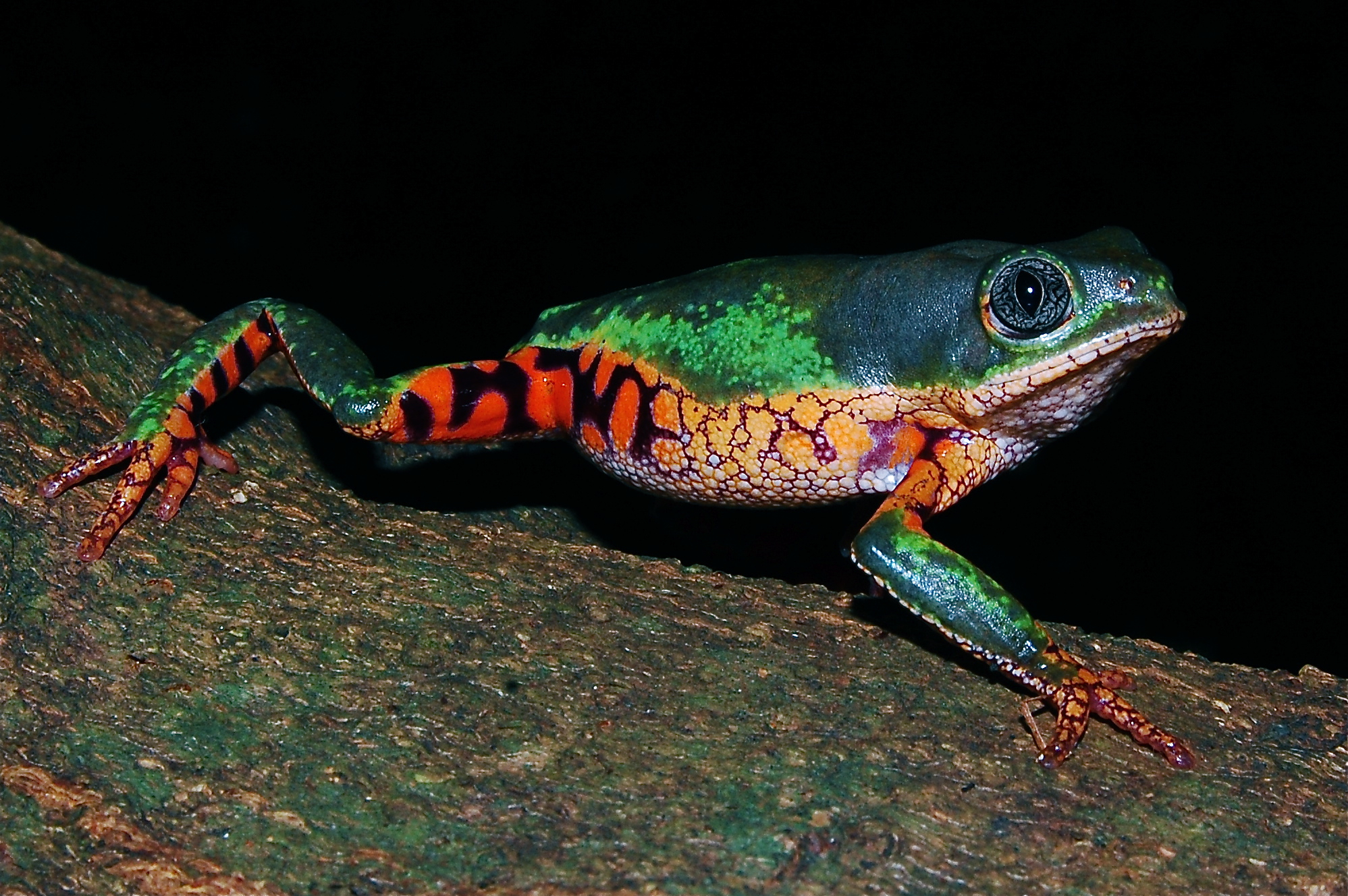 Orange-legged leaf frog, also known as a Monkey frog, Phyllomedusa oreades is a species of frog in the Hylidae family. It is endemic to Brazil. Its natural habitats are subtropical or tropical dry shrubland, subtropical or tropical dry lowland grassland. A very beautiful frog from the Cerrado, Brazil. I love that one.